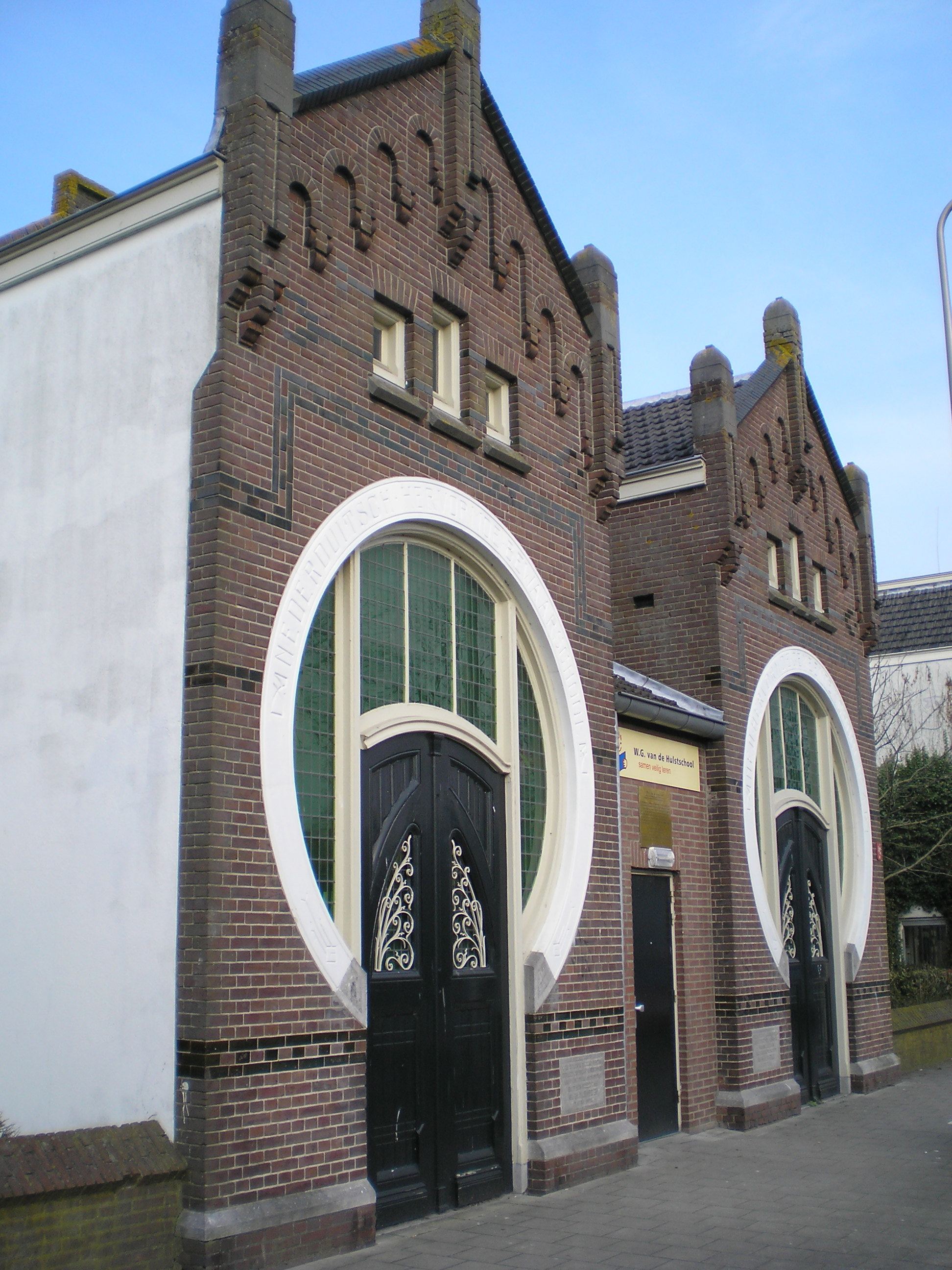 W.G. van de Hulst School at Jutfaseweg 138-139 in Utrecht in the Netherlands